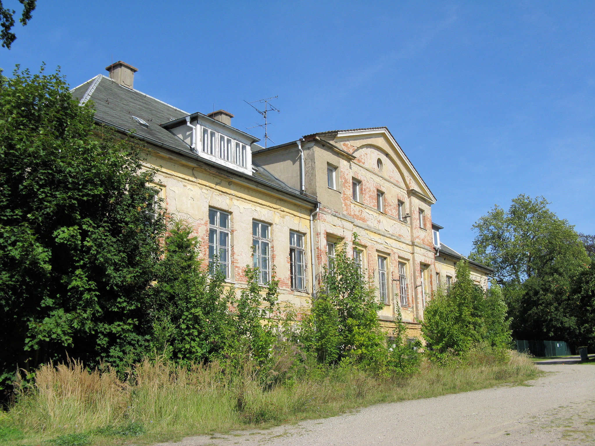 Manor house in Rothspalk, disctrict Rostock, Mecklenburg-Vorpommern, Germany